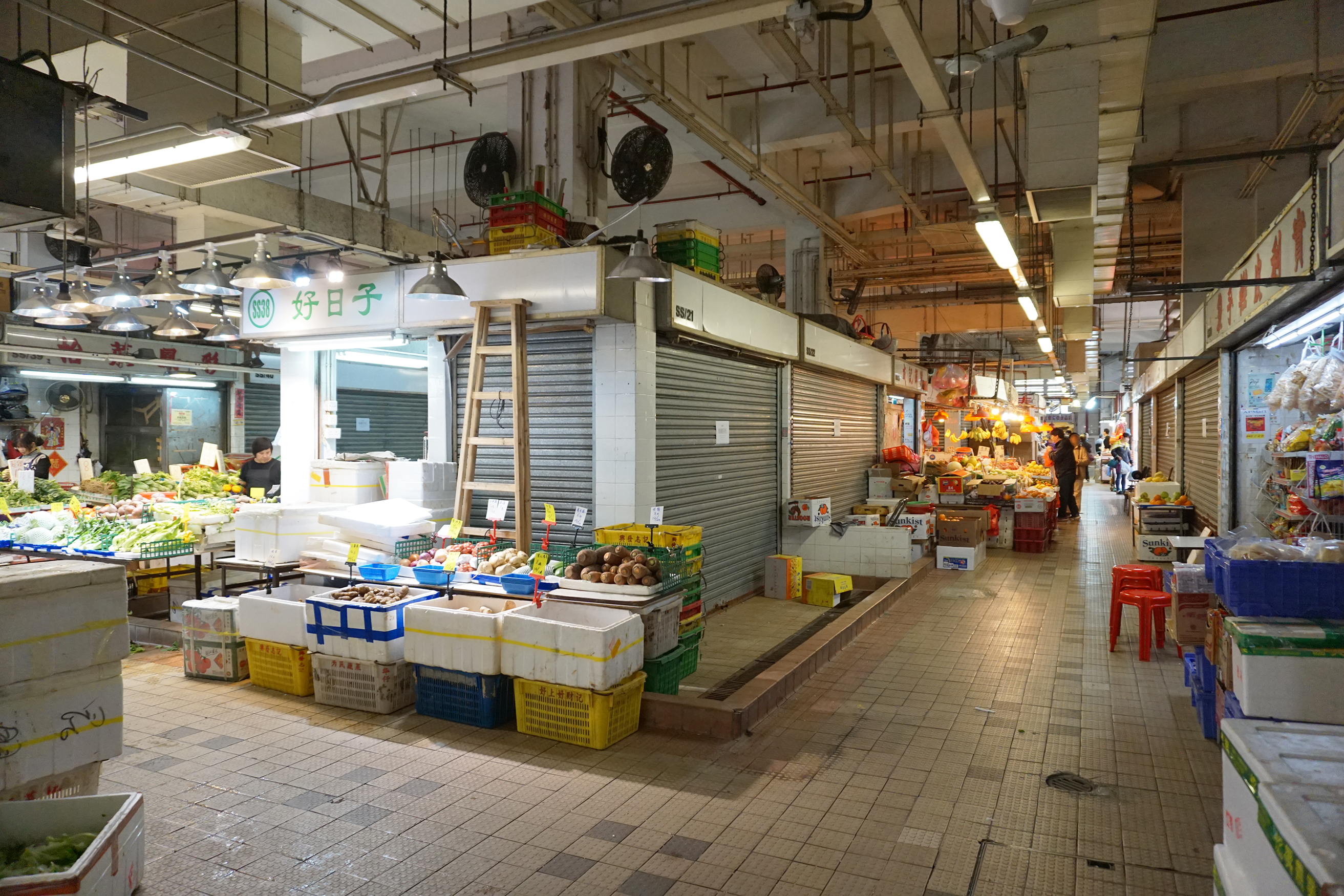 Shek Lei Market in Kwai Chung, Hong Kong.